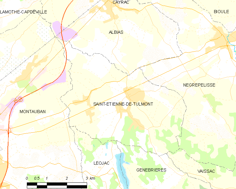 Map of French municipality Saint-Étienne-de-Tulmont